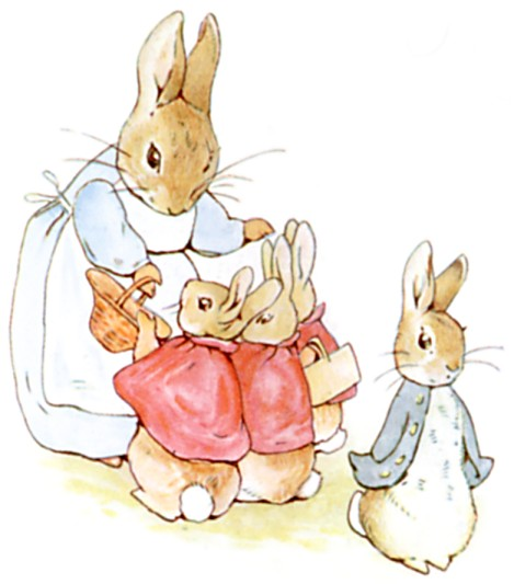 Peter the Rabbit from project Gutenberg